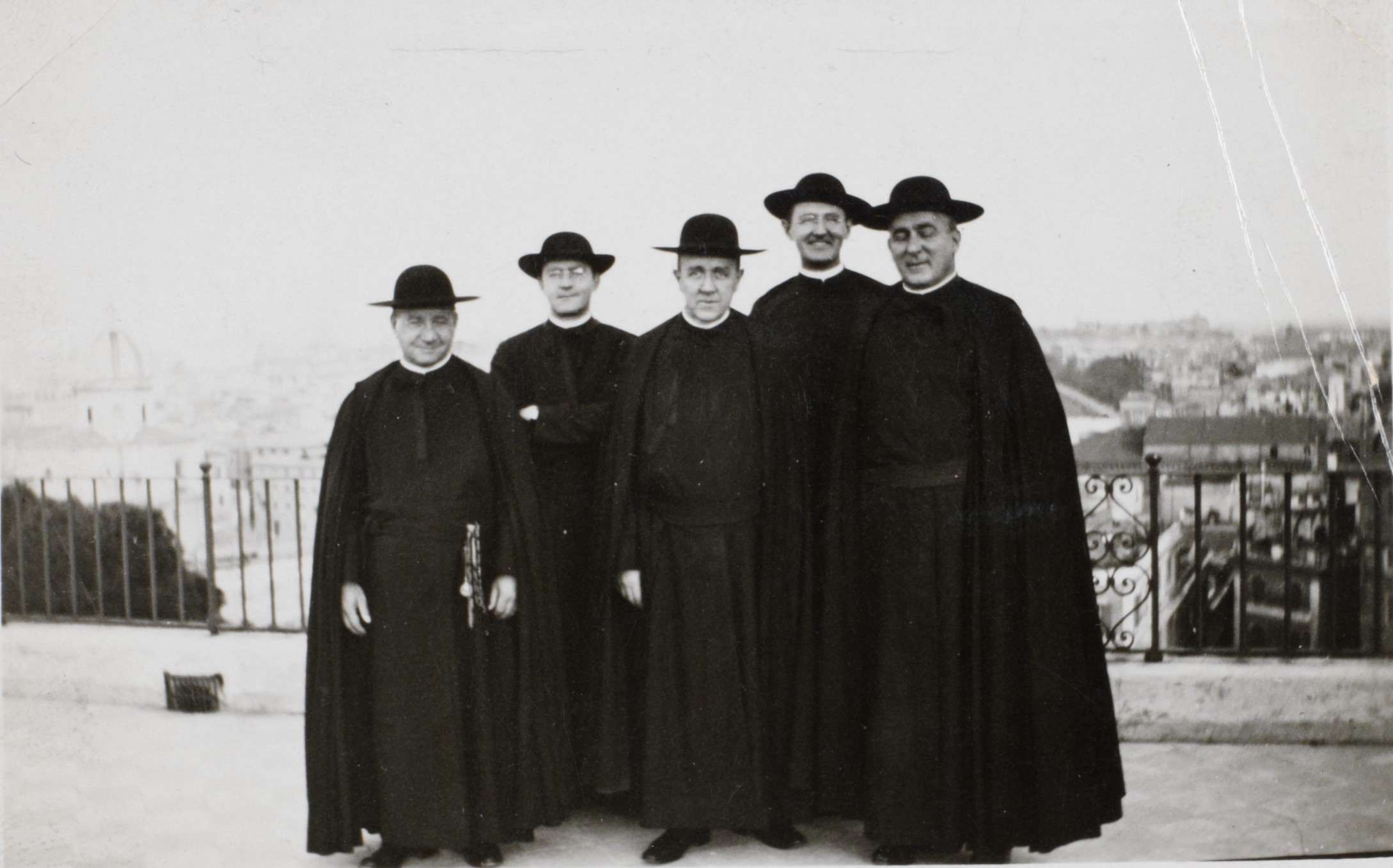 Group of Jesuits meeting at the 1938 General Congregation. From left to right: Fox, P. Donnelly, James Dolan, Haran, John B. Creeden